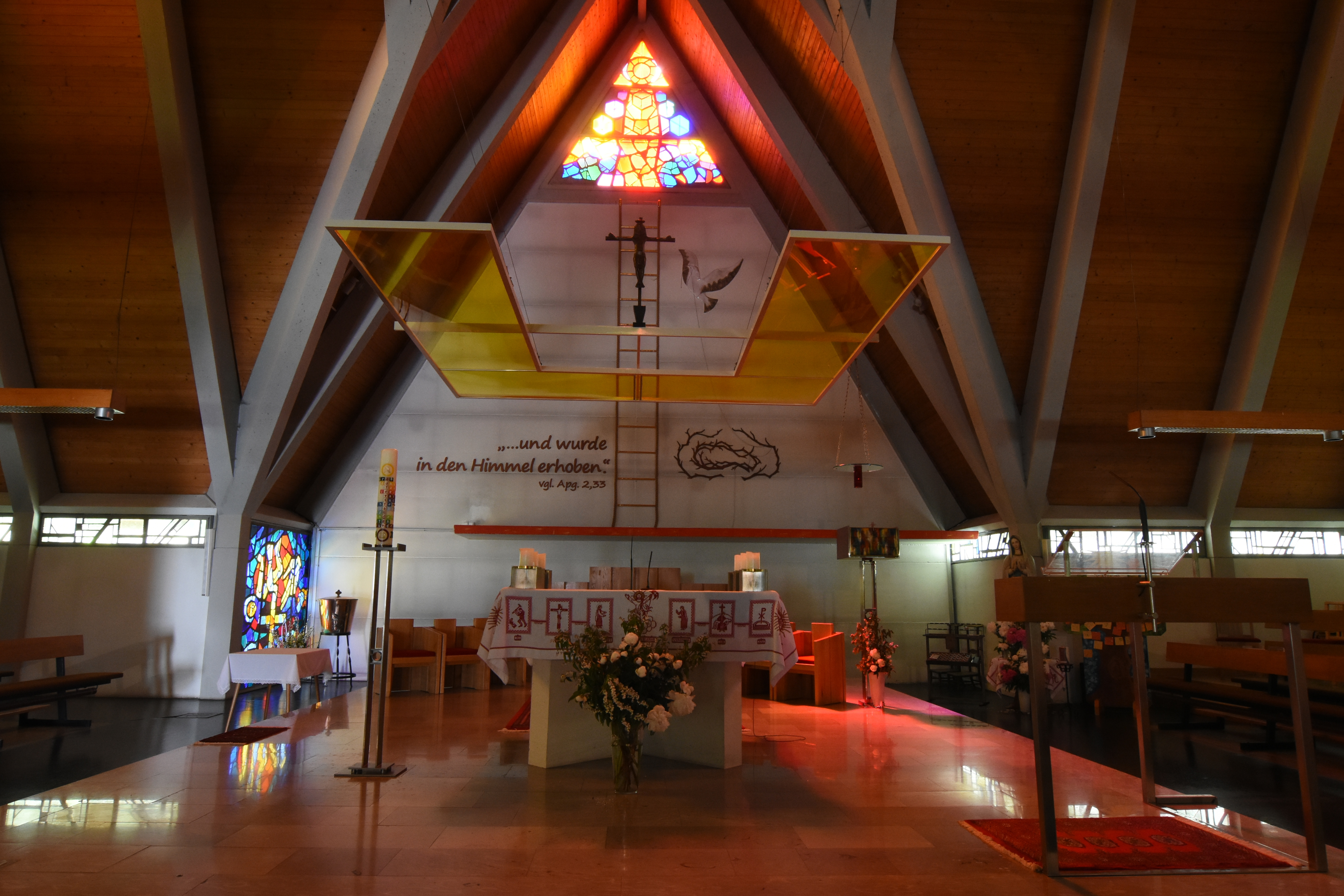 Church Filialkirche Weißenbach bei Liezen